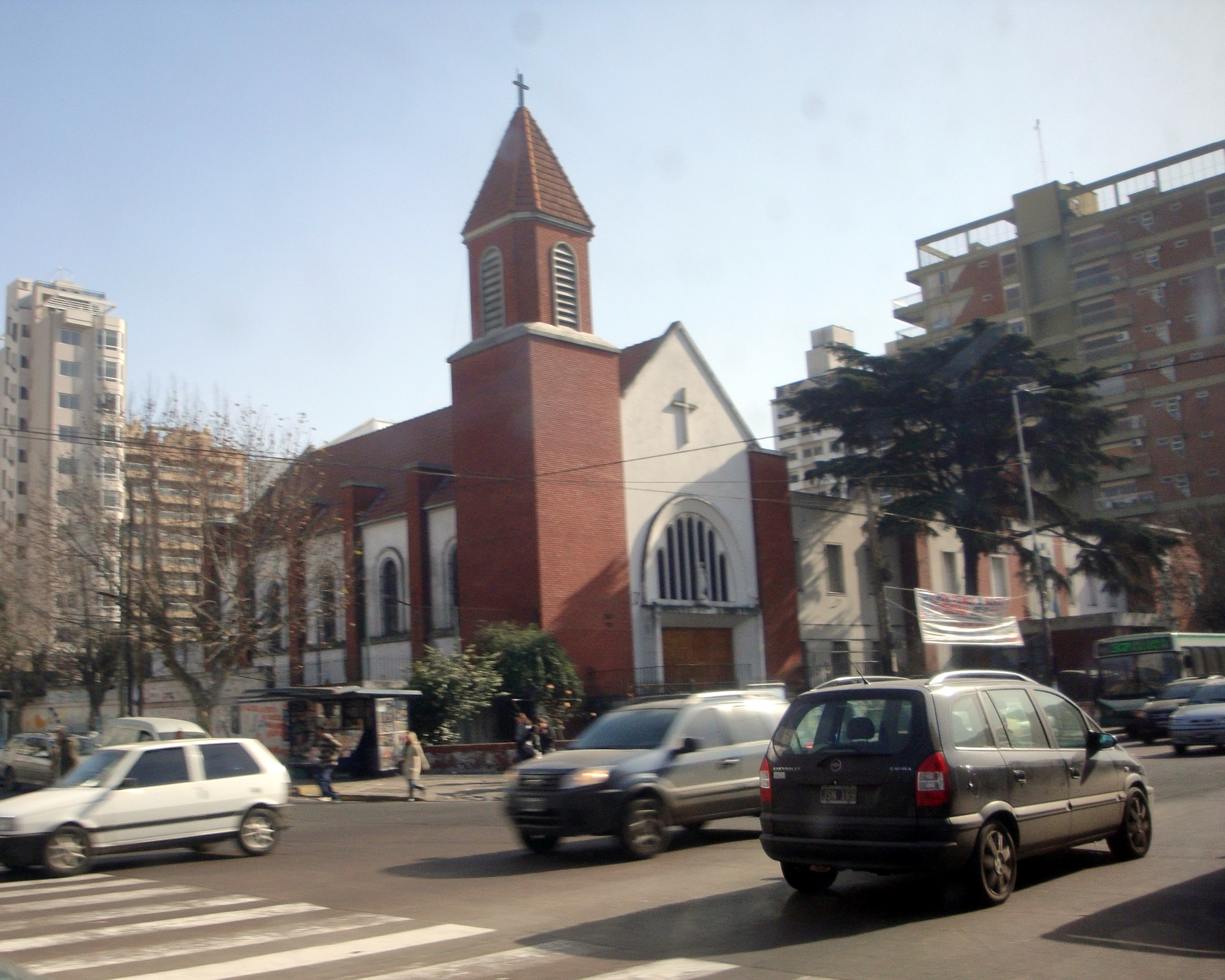 Church of the Immaculate Conception. Hipólito Yrigoyen 4395; Lanús, Argentina.